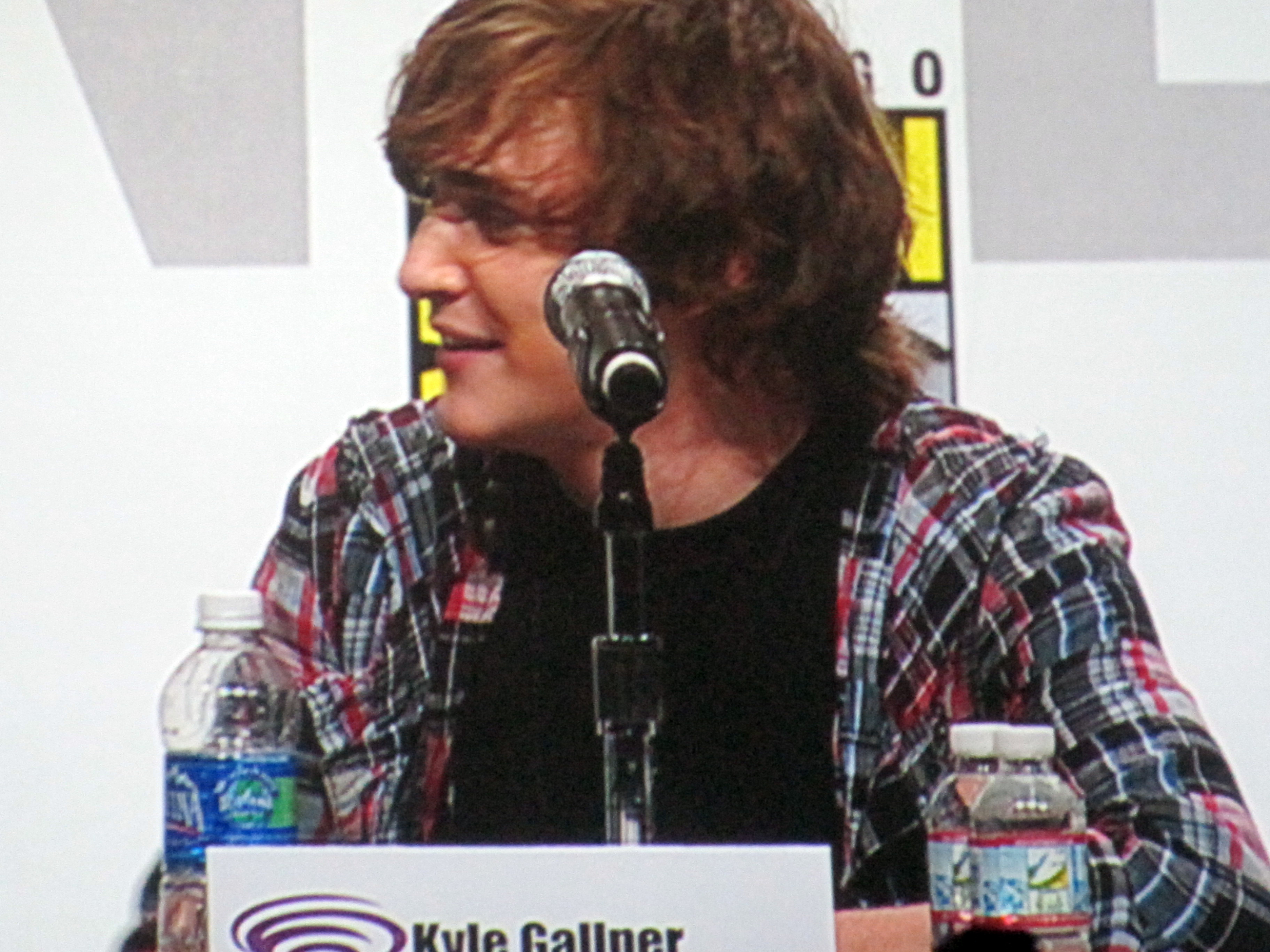 Actor Kyle Gallner participating in the panel for A Nightmare on Elm Street at WonderCon 2010.